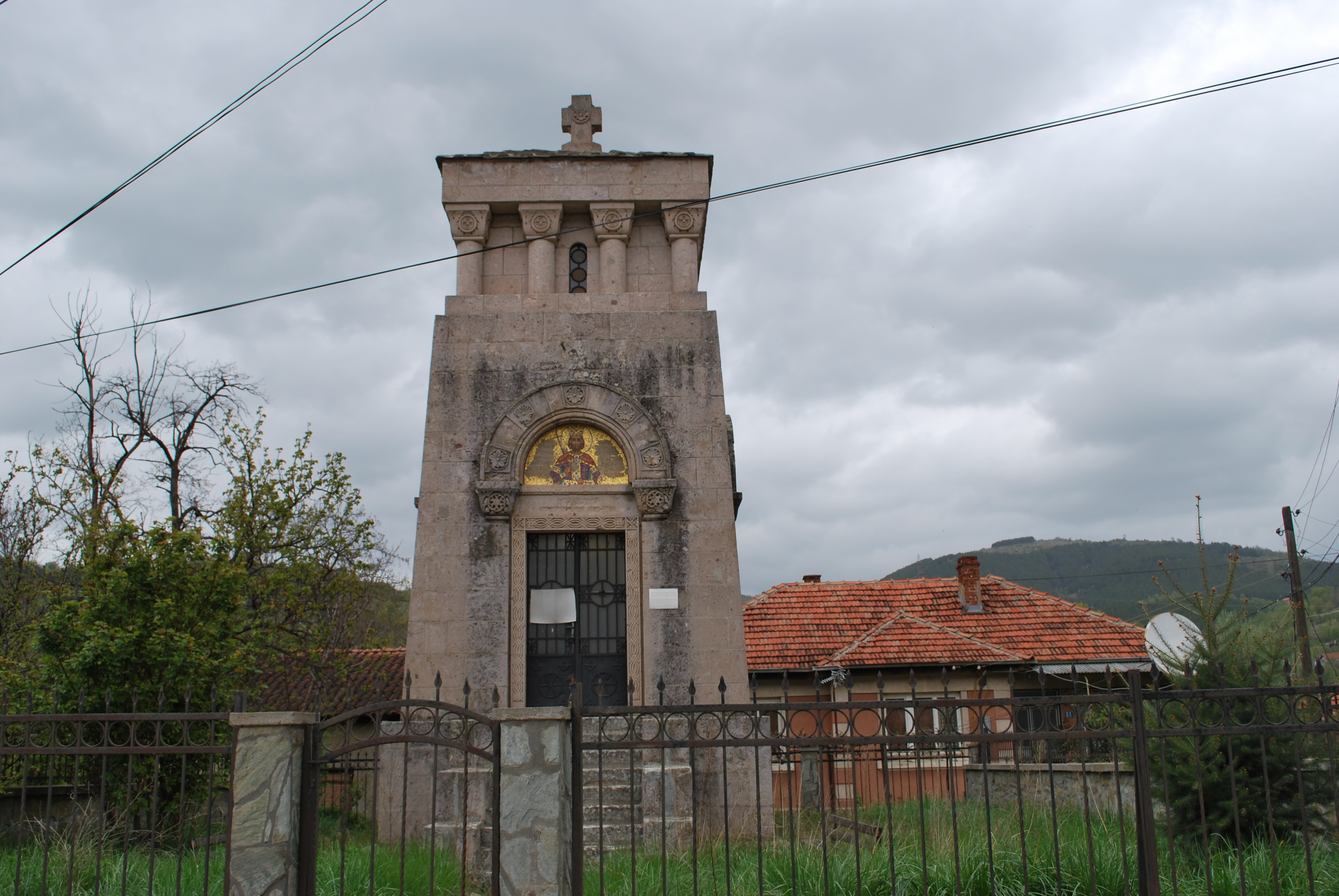 Kriva Palanka, Macedonia